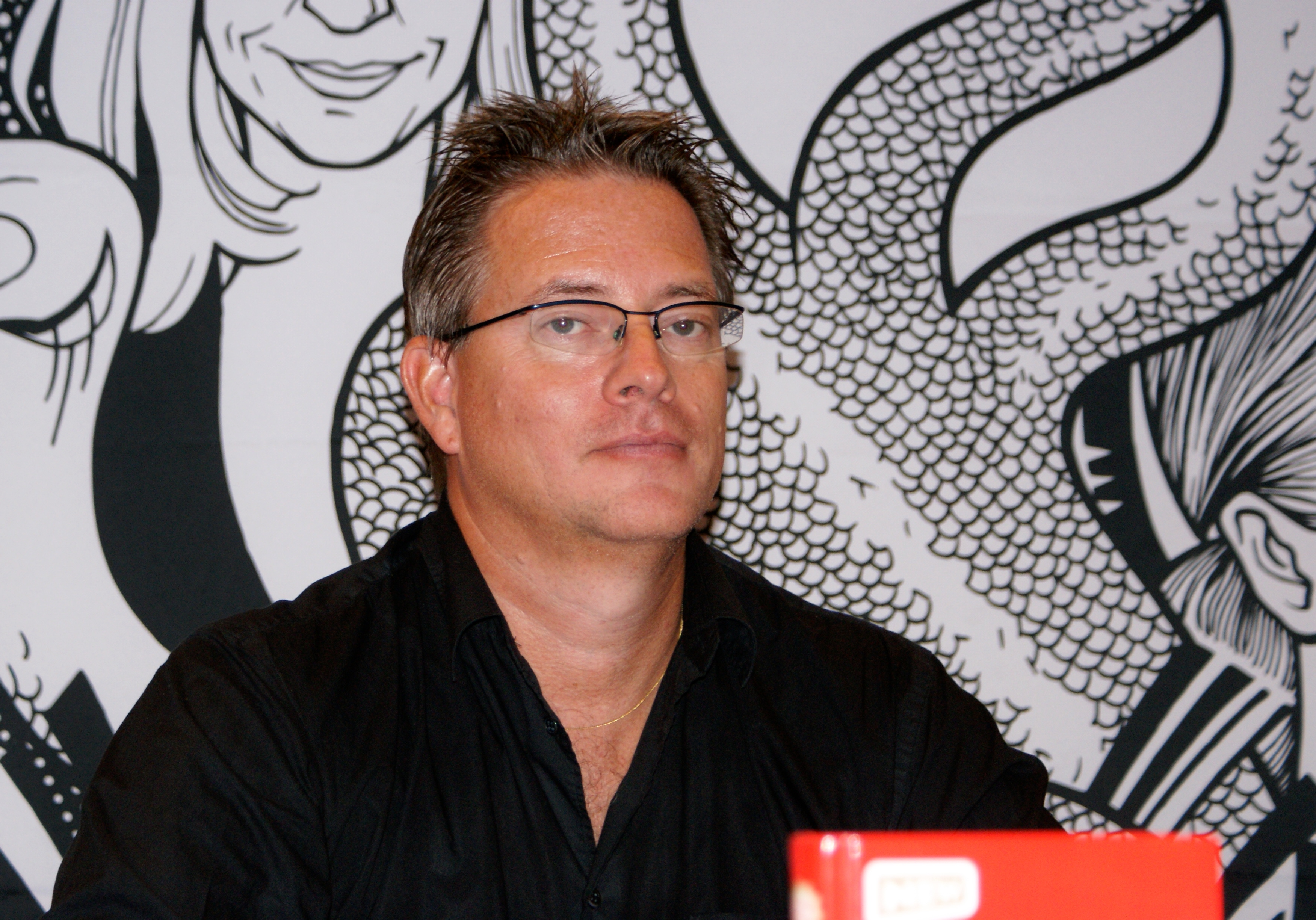 At the bookfair in Gothenburg 2009.